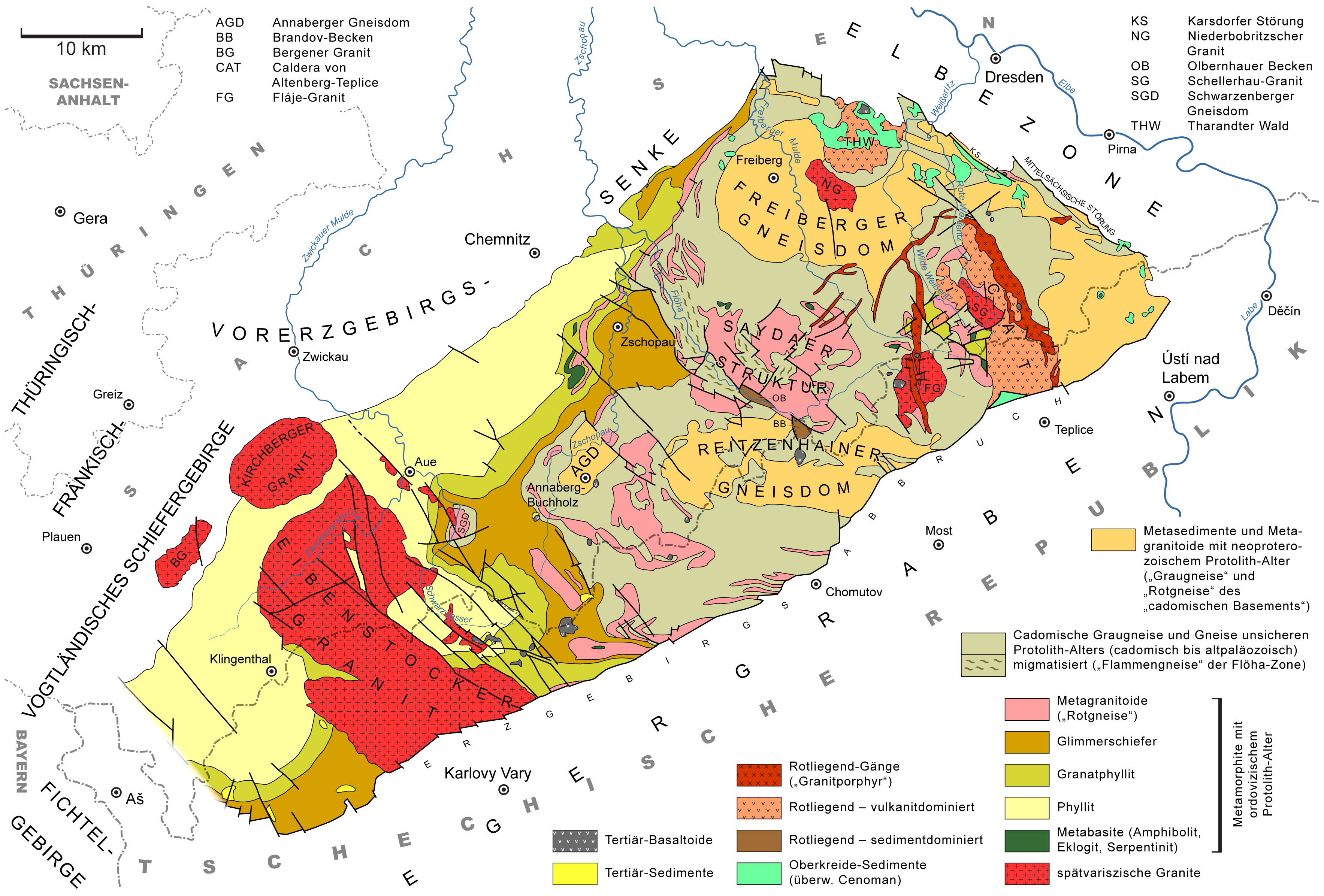 Geological sketch map of the Erzgebirge Mountains (Krušné Hory, Ore Mountains), after Hoth et al. (1992)[1] and Sebastian (2013),[2] Quaternary deposits omitted.